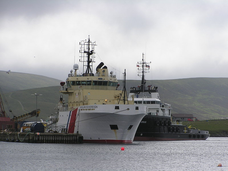 British emergency tow vessel Anglian Sovereign at Scalloway